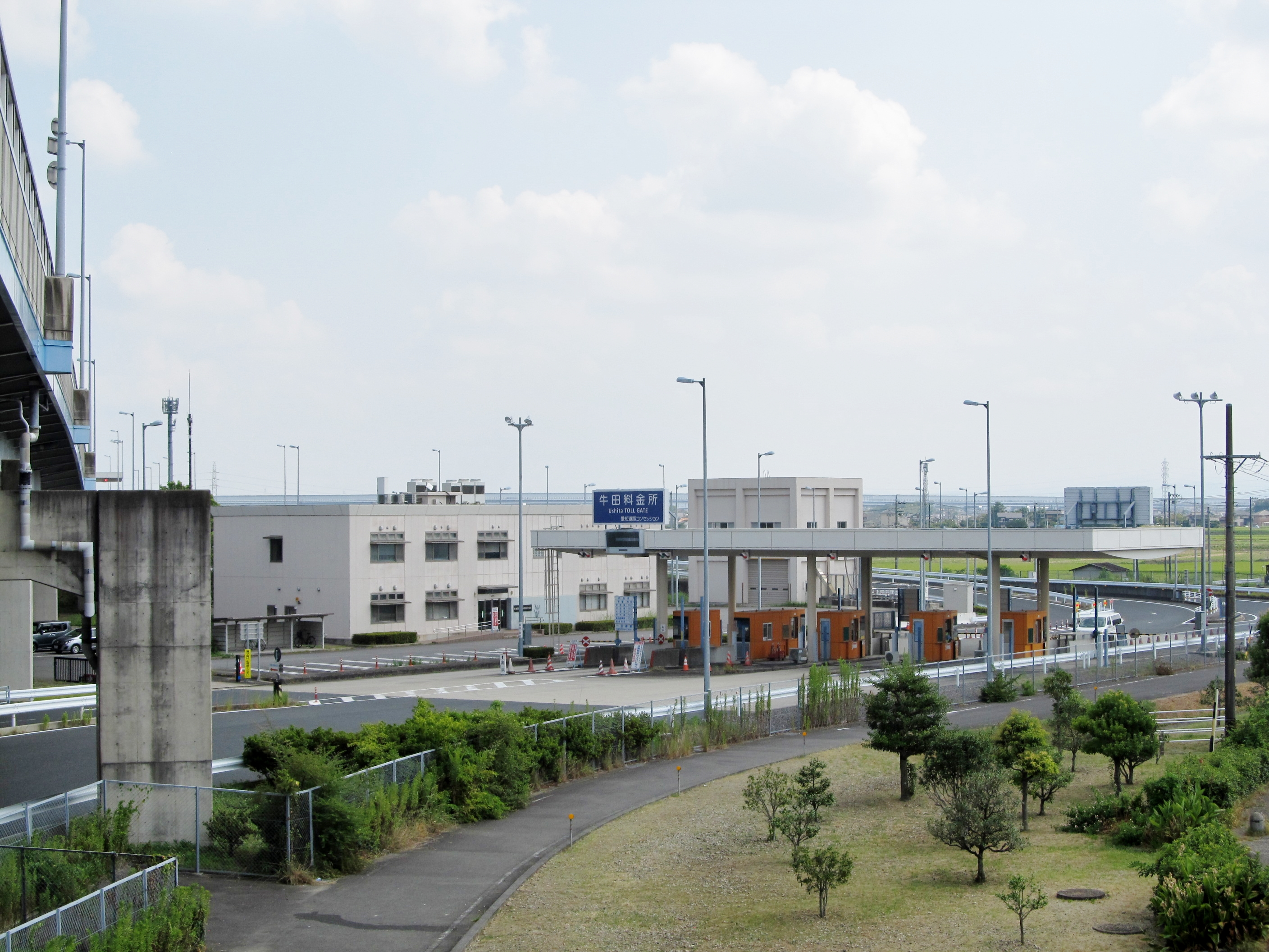 Kinuura-Toyota Road Ushita interchange, Aichi Japan